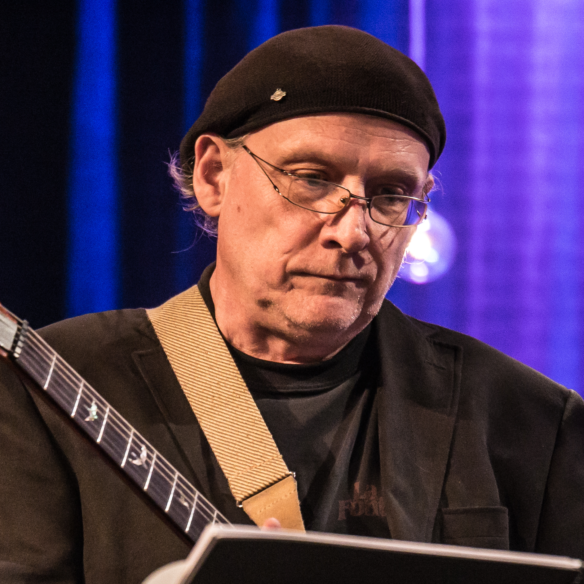 Swedisch jazz guitarist Bjarne Roupé at the Moers Festival 2015